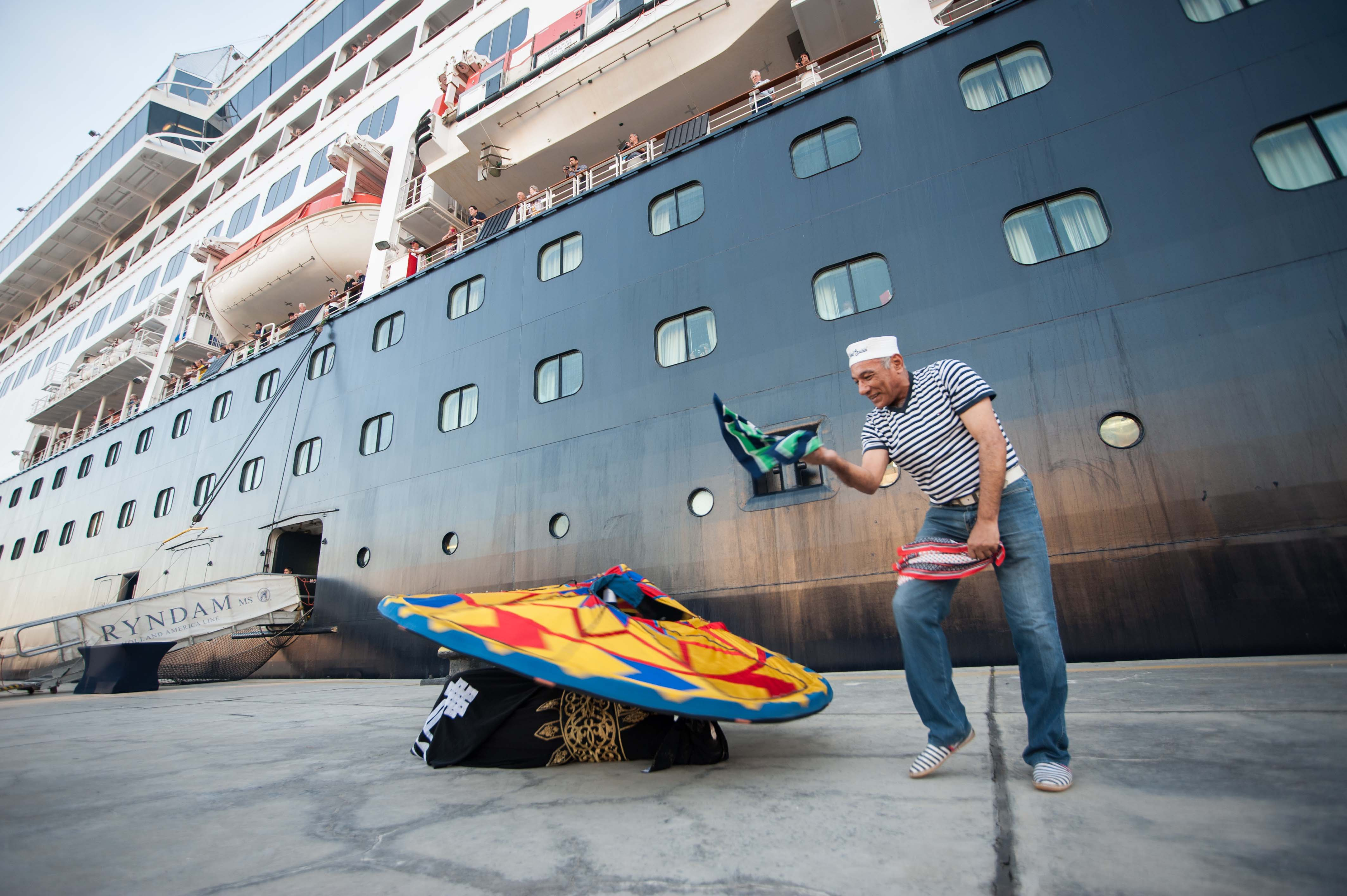 This is an image of music and dance from Egypt